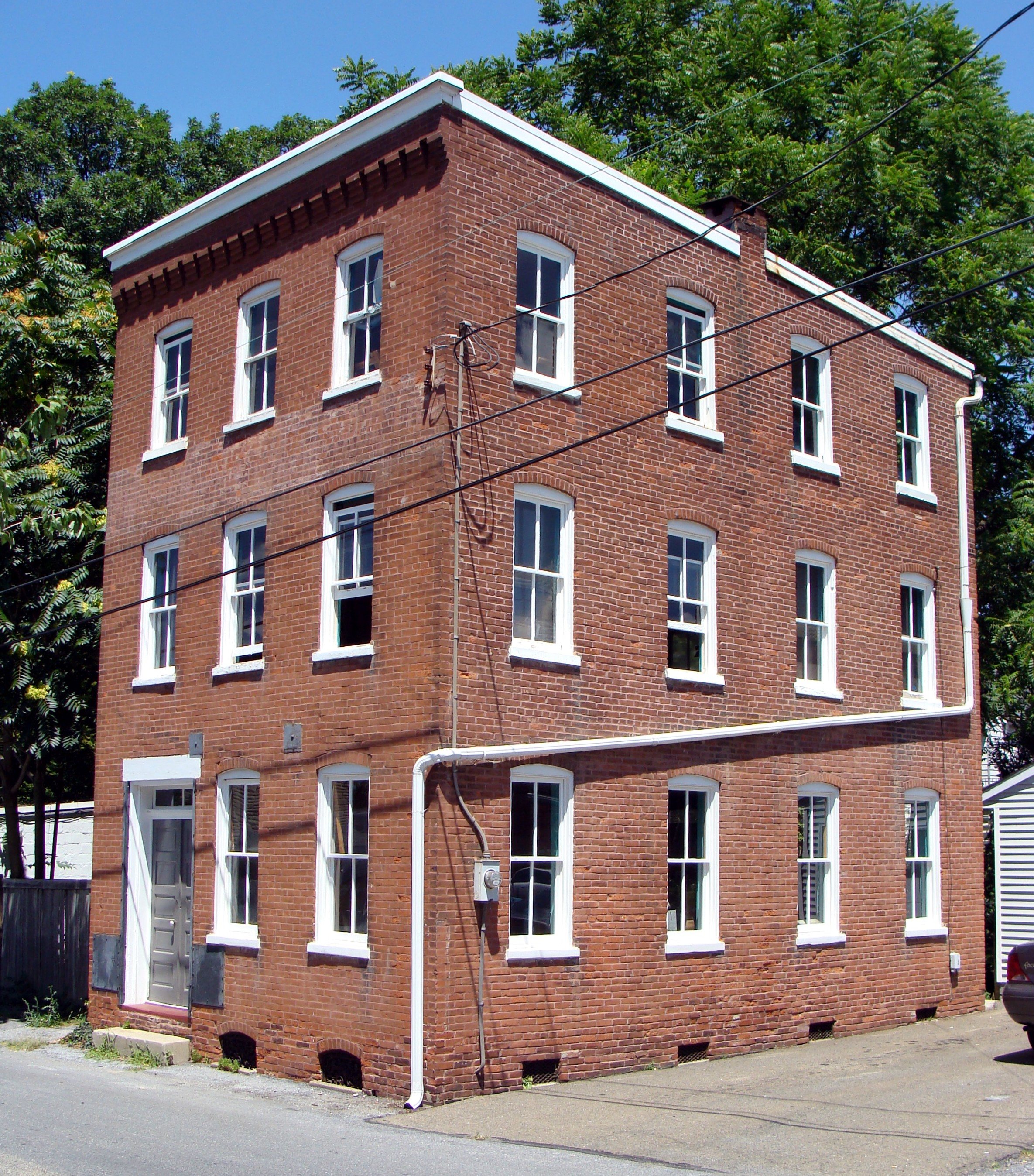 The J. B. Milleysack Cigar Factory, located at the rear of 820 Columbia Avenue, in Lancaster, Pennsylvania.